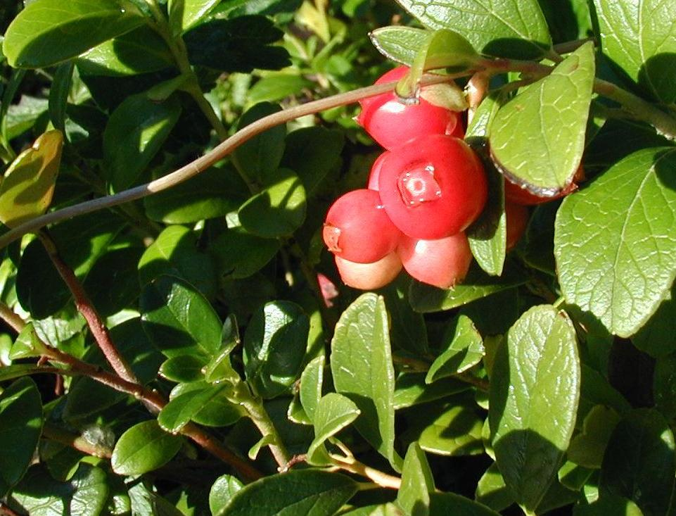 Vaccinium vitis-idaea: Berries and foliage